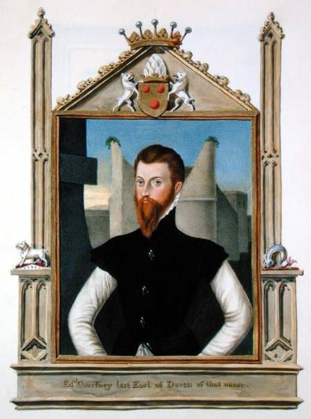 Son of Henry Courtenay, Marquess of Exeter and grandson of Princess Katherine of York